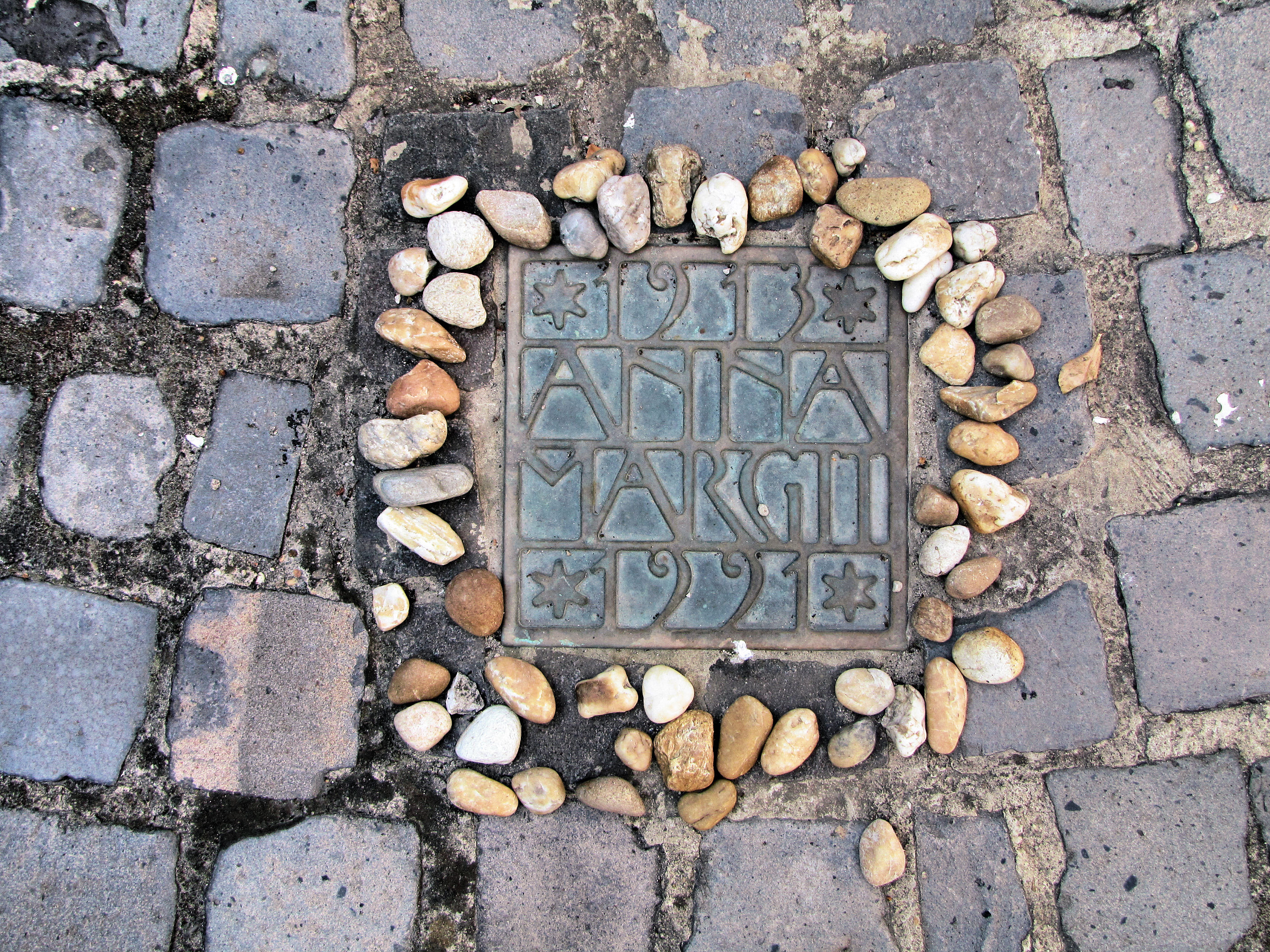 The gravestone of Anna Margit Hungarian painter, in the courtyard of the Imre Ámos - Margit Anna Museum, Szentendre.